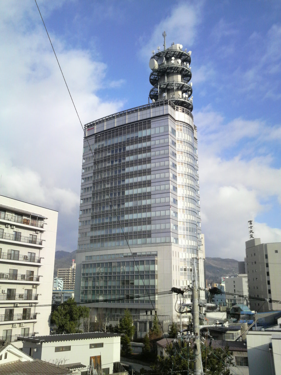 NTT docomo NAGANO Tower